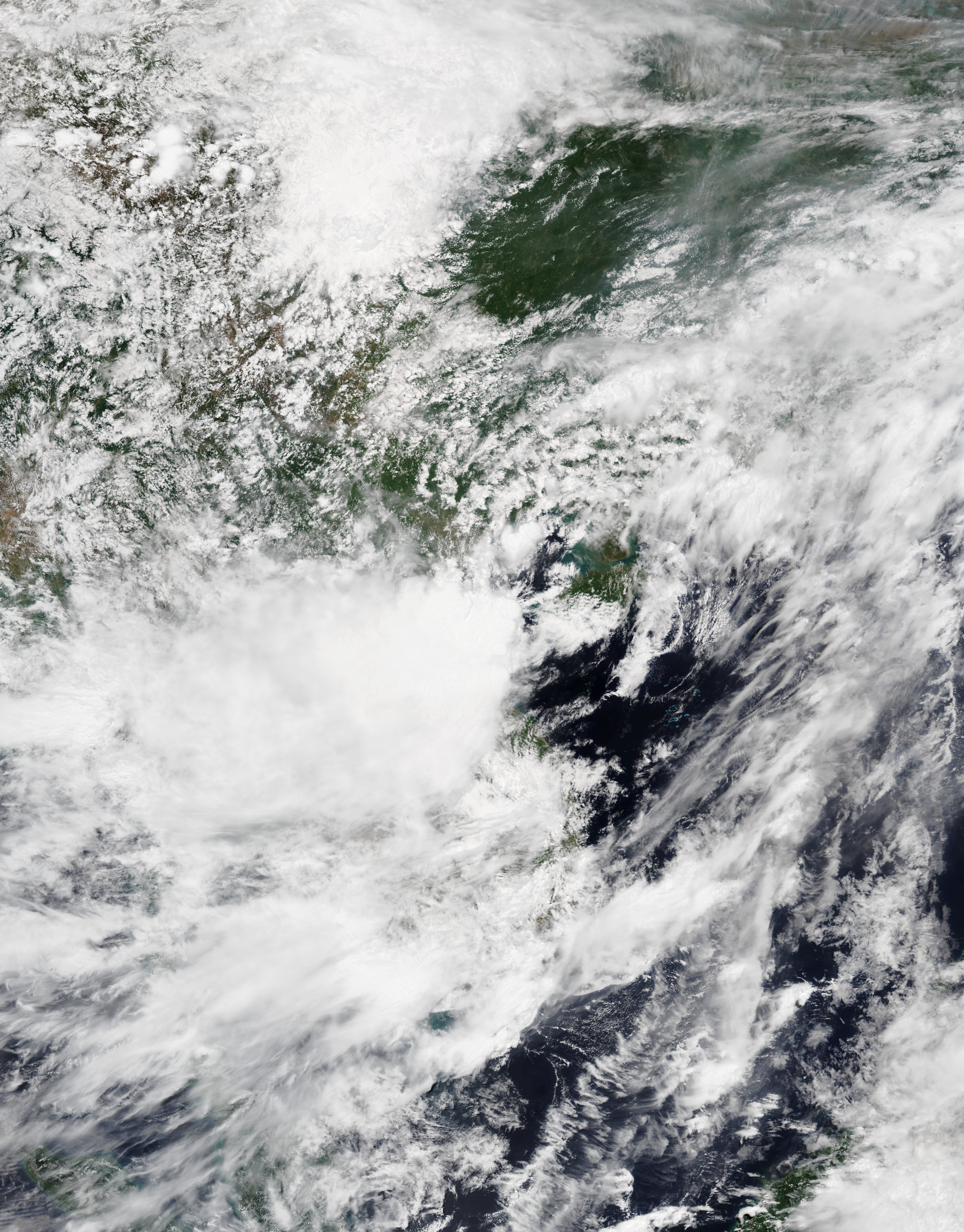 Tropical Storm Mun in the Gulf of Tonkin on July 3, 2019